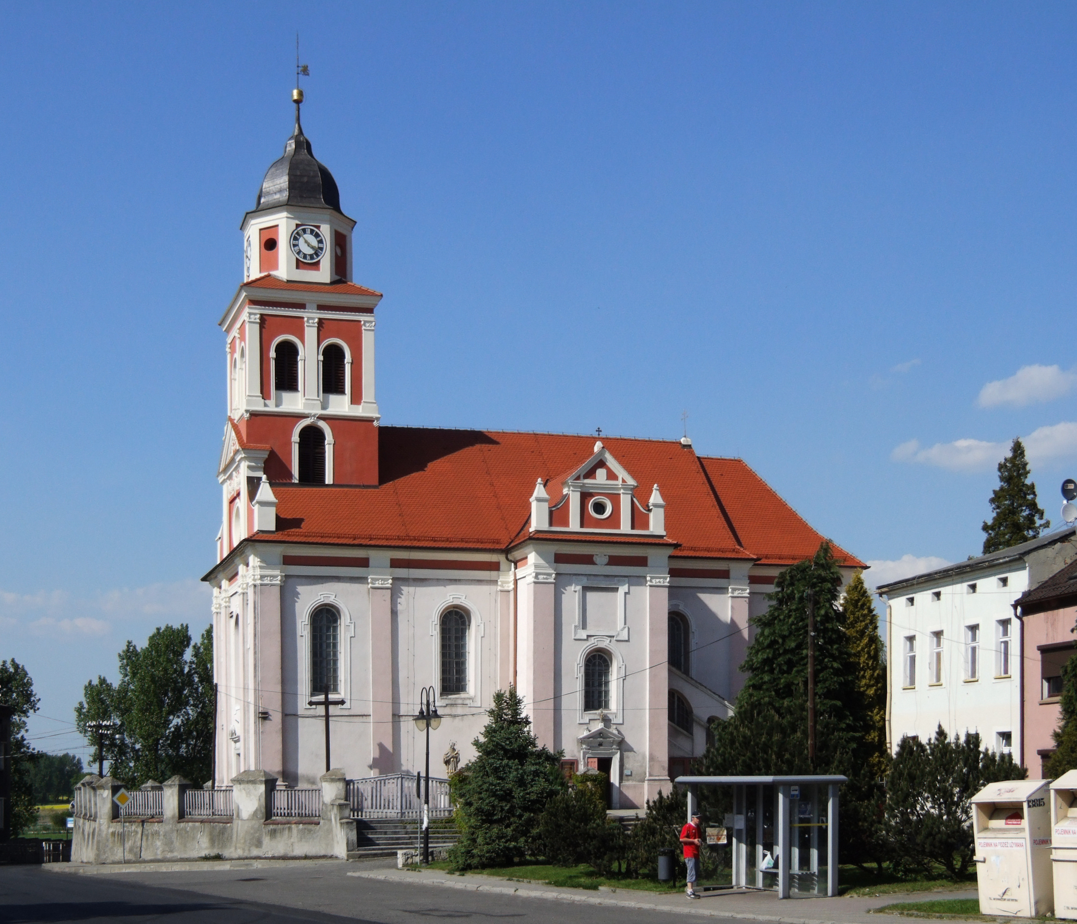 Church in Prószków (Proskau), Upper Silesia